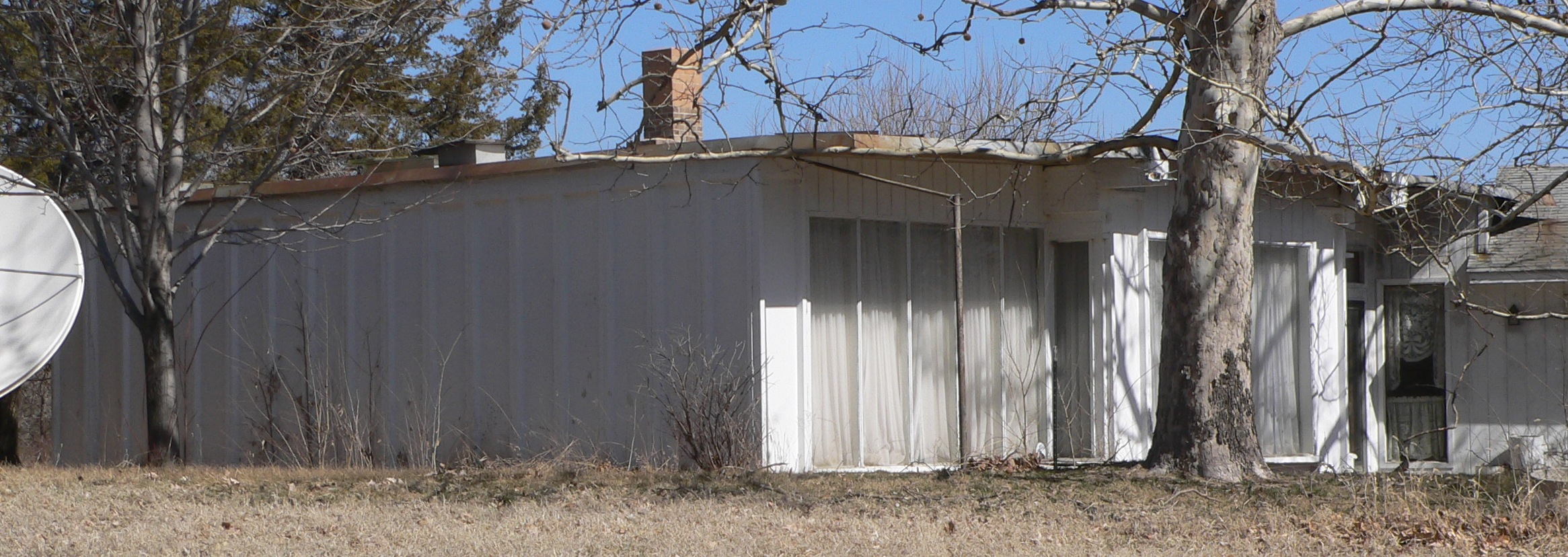 Richard E. Dill house, located at southwest corner of 6th and Mercy Streets in Alexandria, Nebraska; western wing.